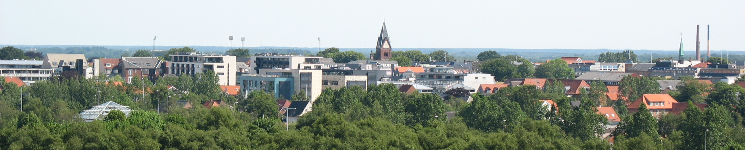 Panorama of Herning. Herning Church in centre.